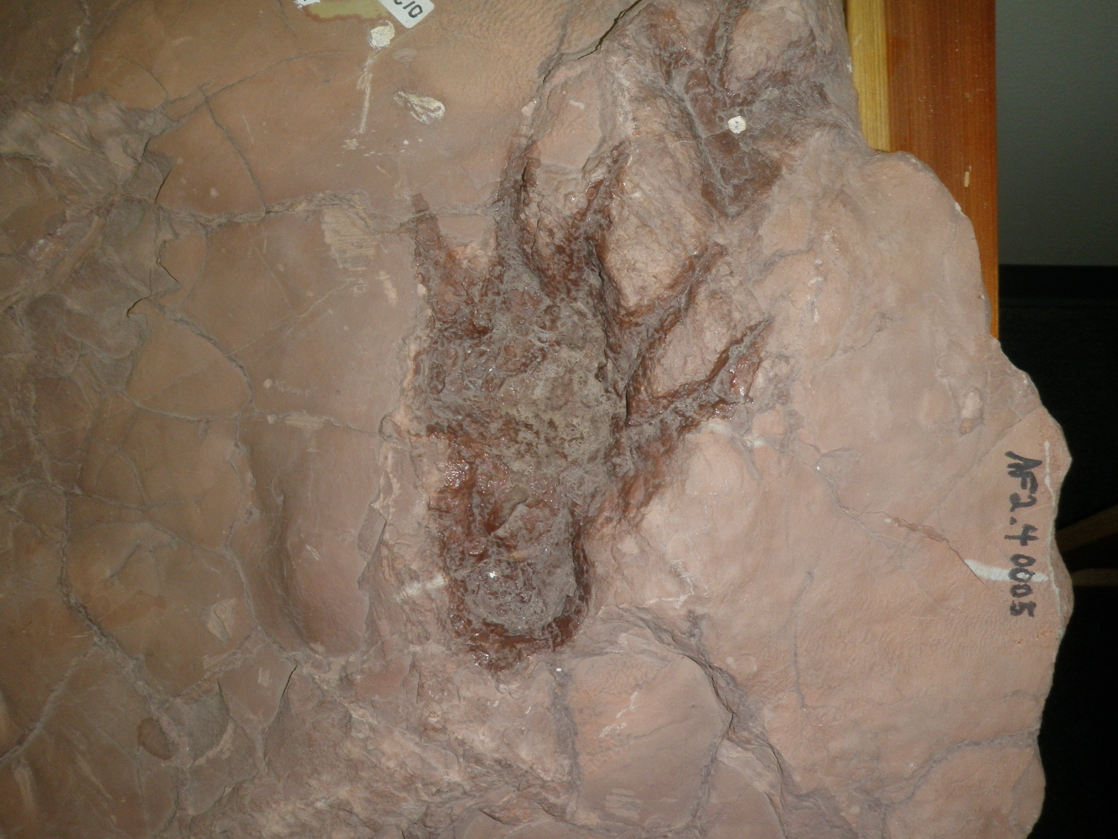 Permian period track probably from a Dimetrodon, from the Prehistoric Trackways National Monument